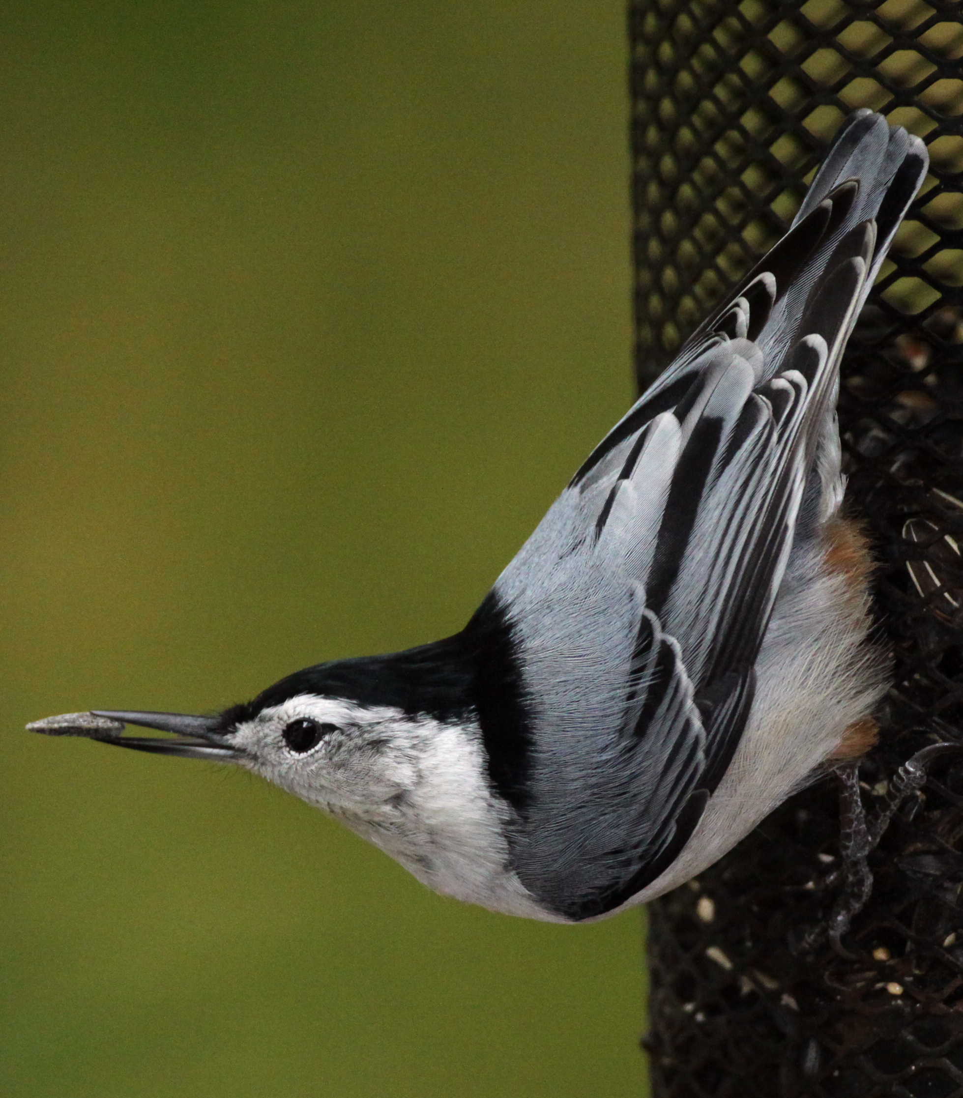 nuthatch